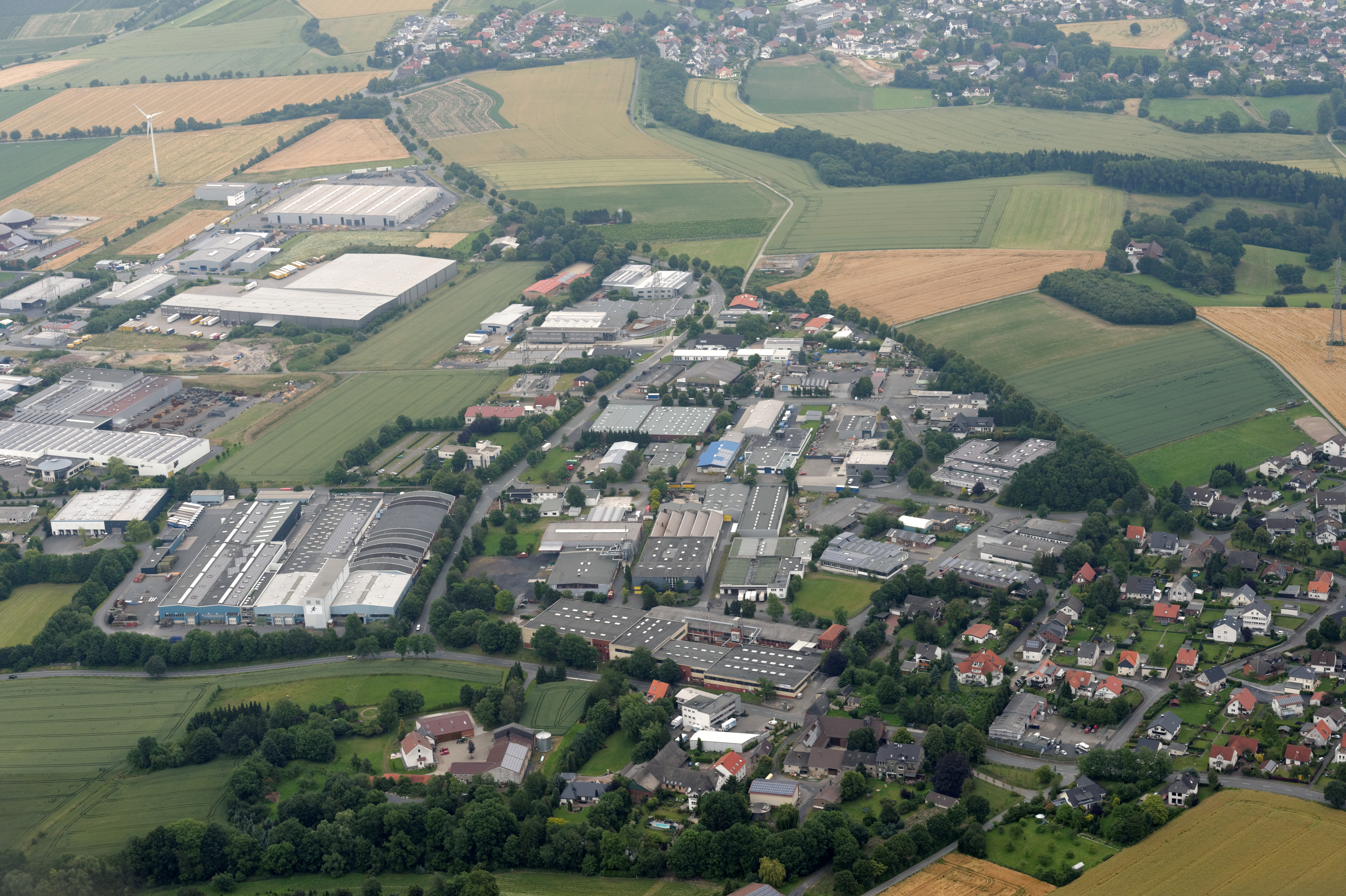 Fotoflug Sauerland Nord, Ense-Höingen, Gewerbegebiet, oben Niederense, Blickrichtung Nordost The making of this document was supported by the Community-Budget of Wikimedia Germany.